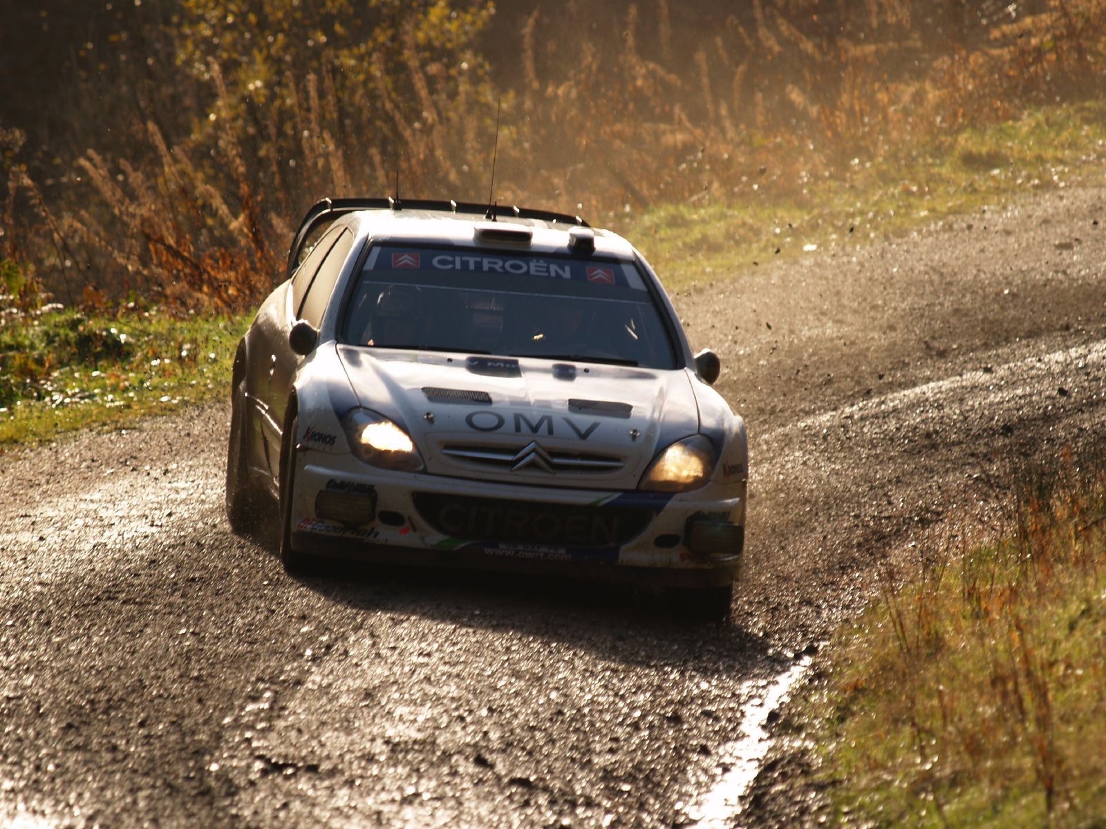 Manfred Stohl driving his Citroën Xsara WRC during 2007 Wales Rally GB.